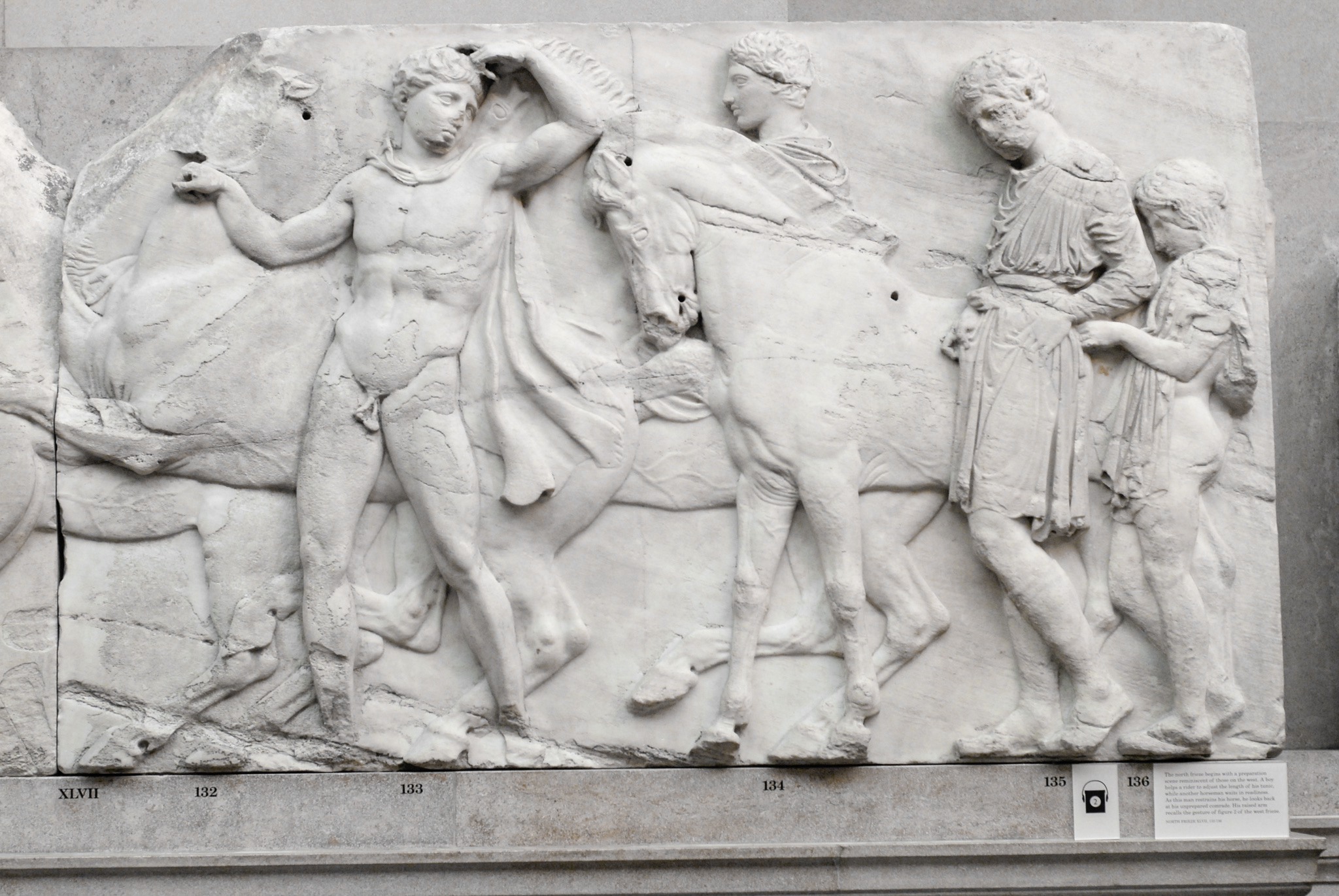 Cavalcade. Block XLVII from the north frieze of the Parthenon, ca. 447–433 BC.